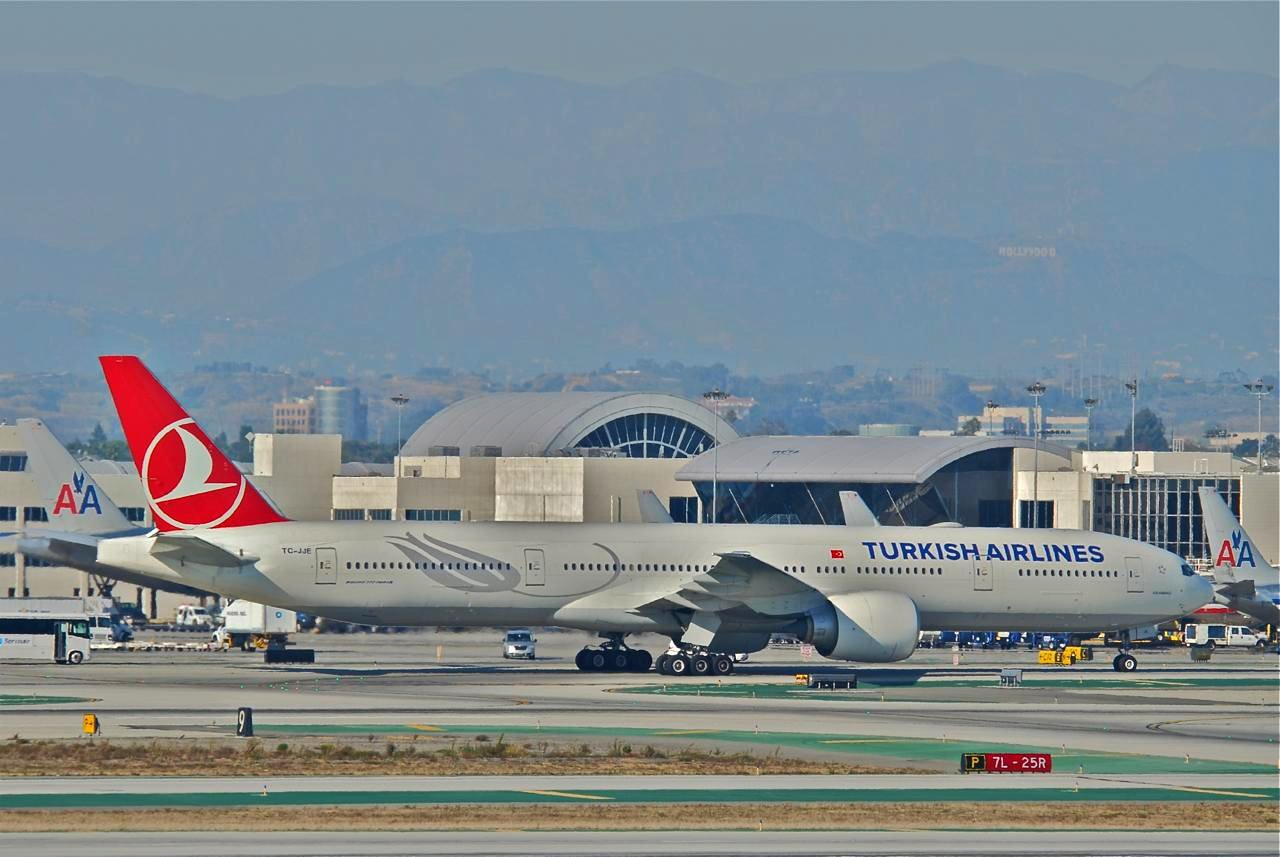 Turkish Airlines Boeing 777-300ER; TC-JJE@LAX;11.10.2011/623pz